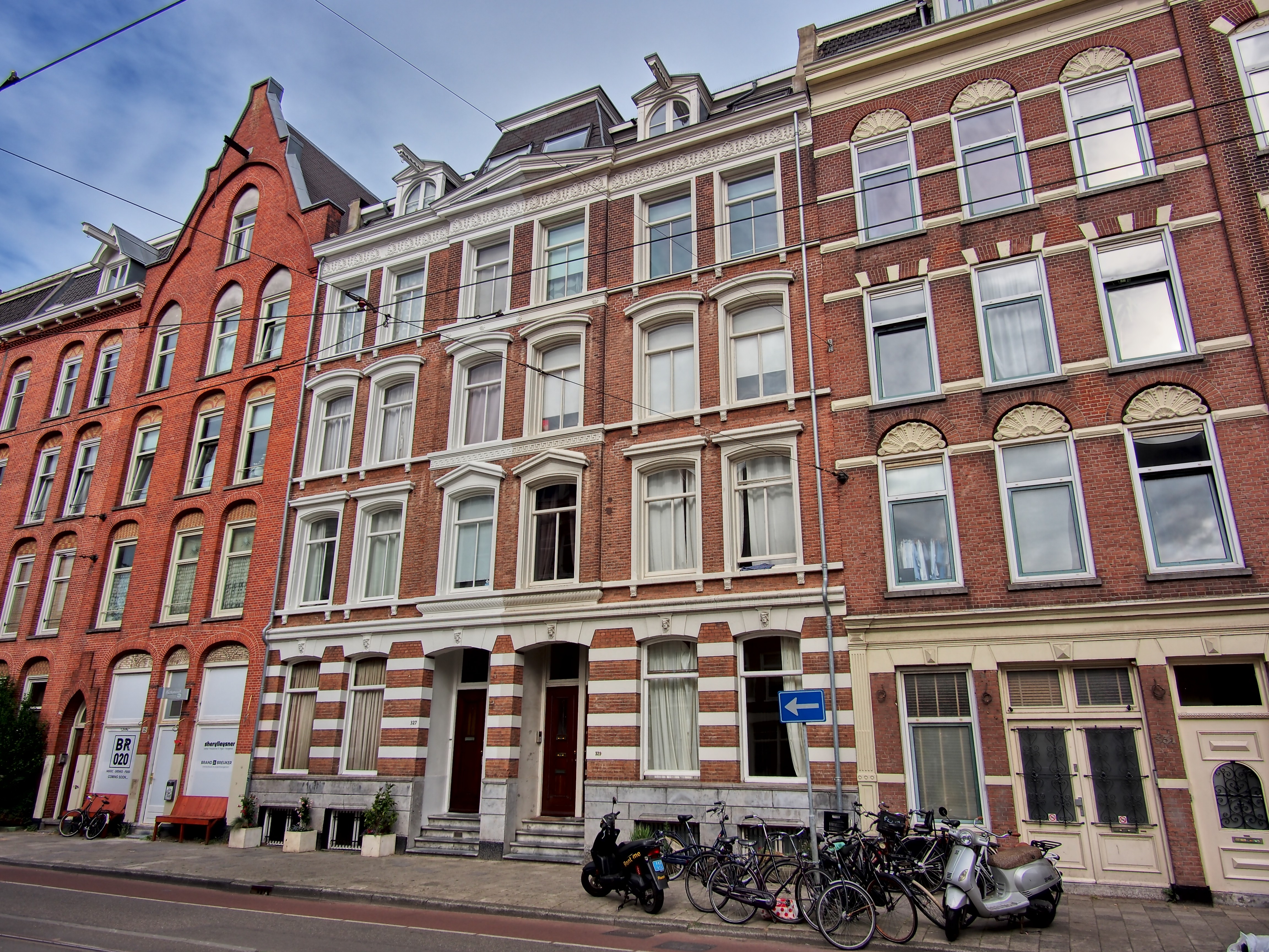 Photographed in Amsterdam.